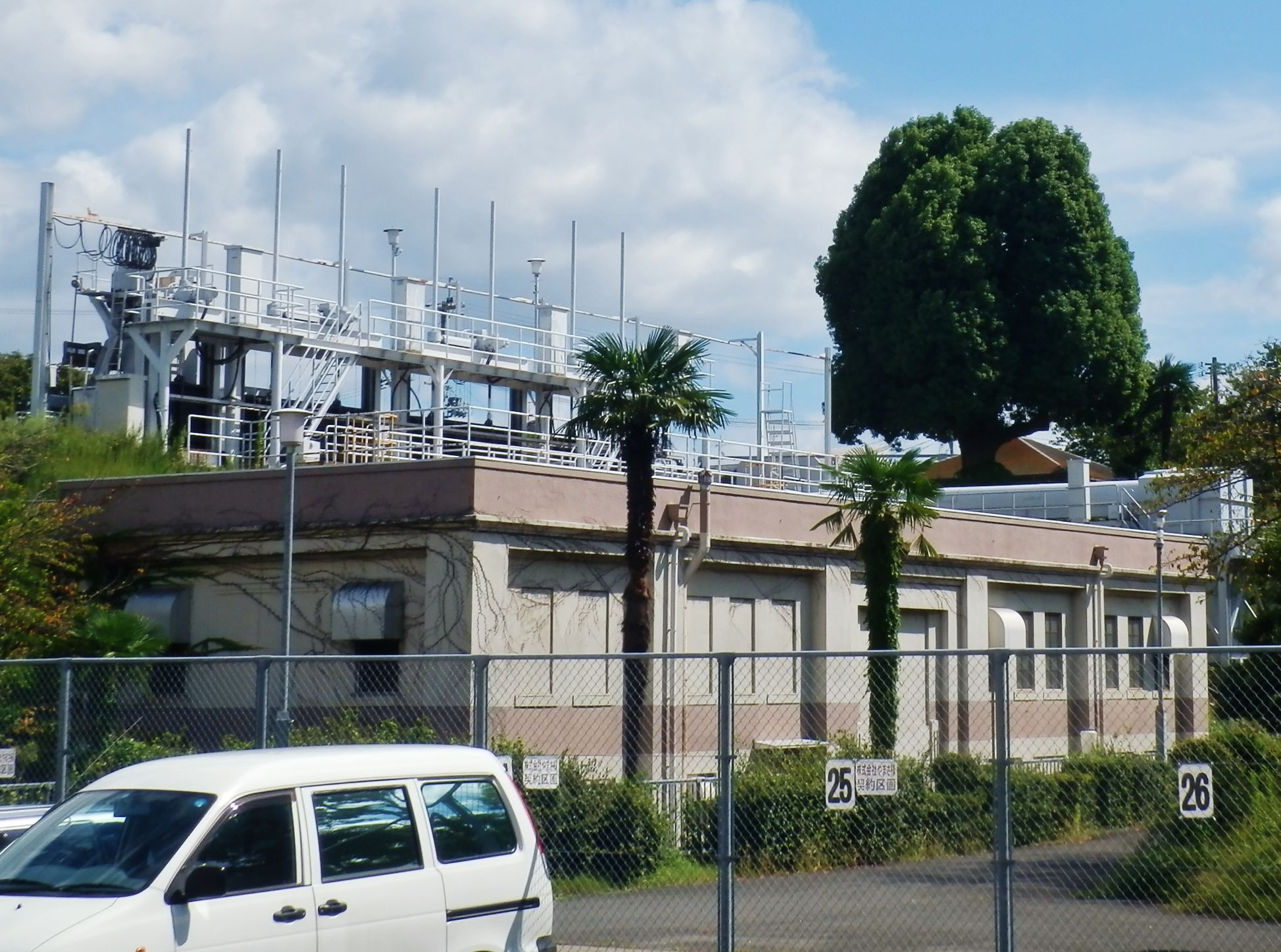 Sumizome Power Station.